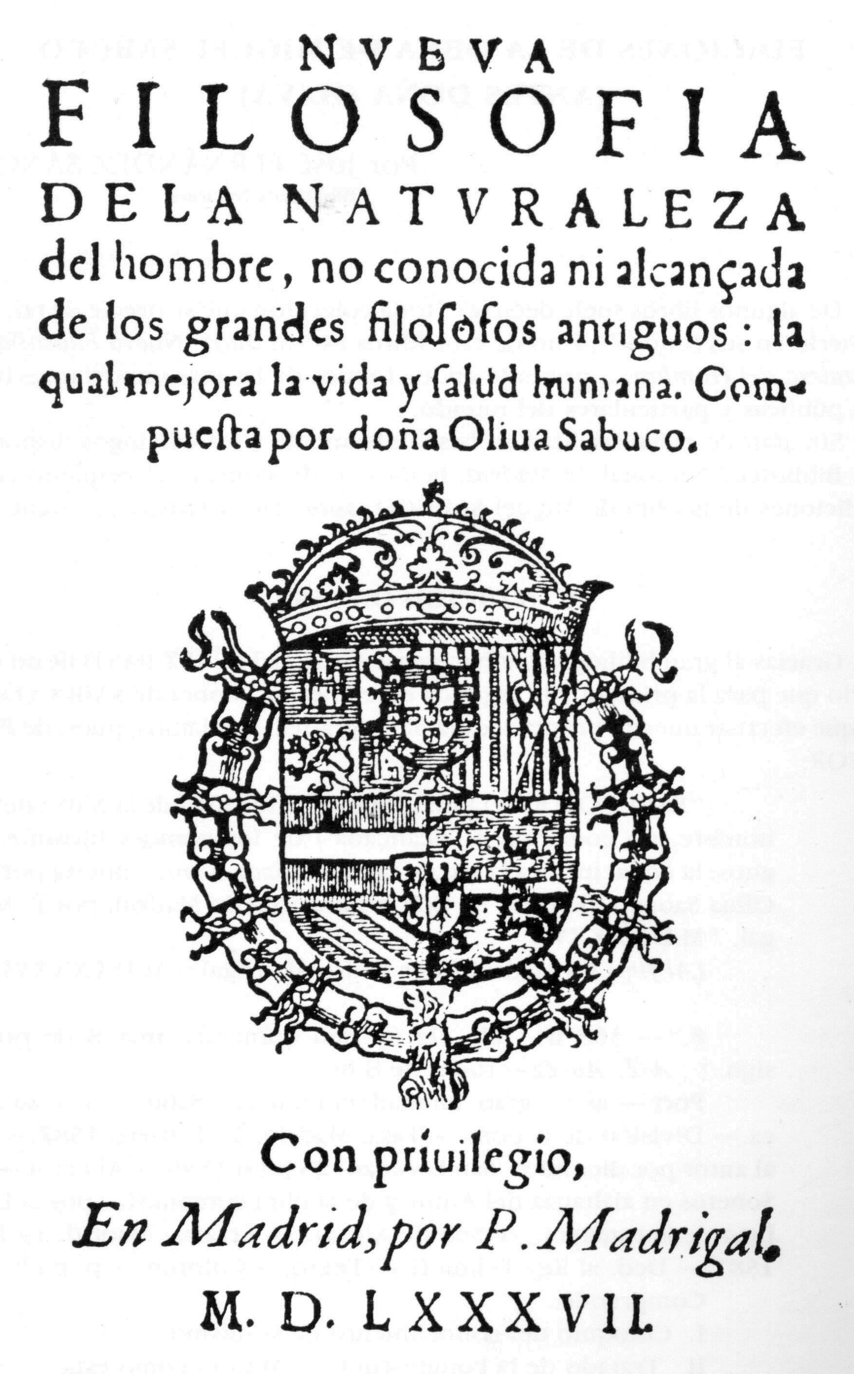 Photocopy of SABUCO NP frontpage taken by permission of NIH-DC